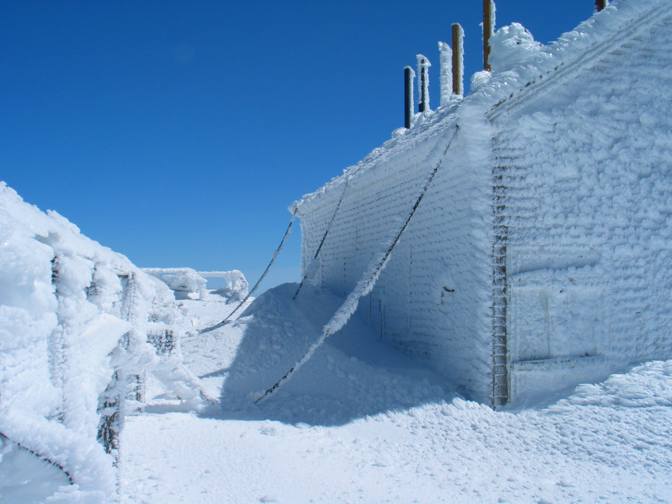 The Stage Building atop Mount Washington (New Hampshire) chained down and covered in rime frost. This was the original location of the Mount Washington Observatory, since moved to a nearby building.